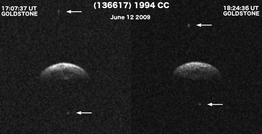 Radar imaging of 1994 CC's moons at NASA's Goldstone at different times. Static.